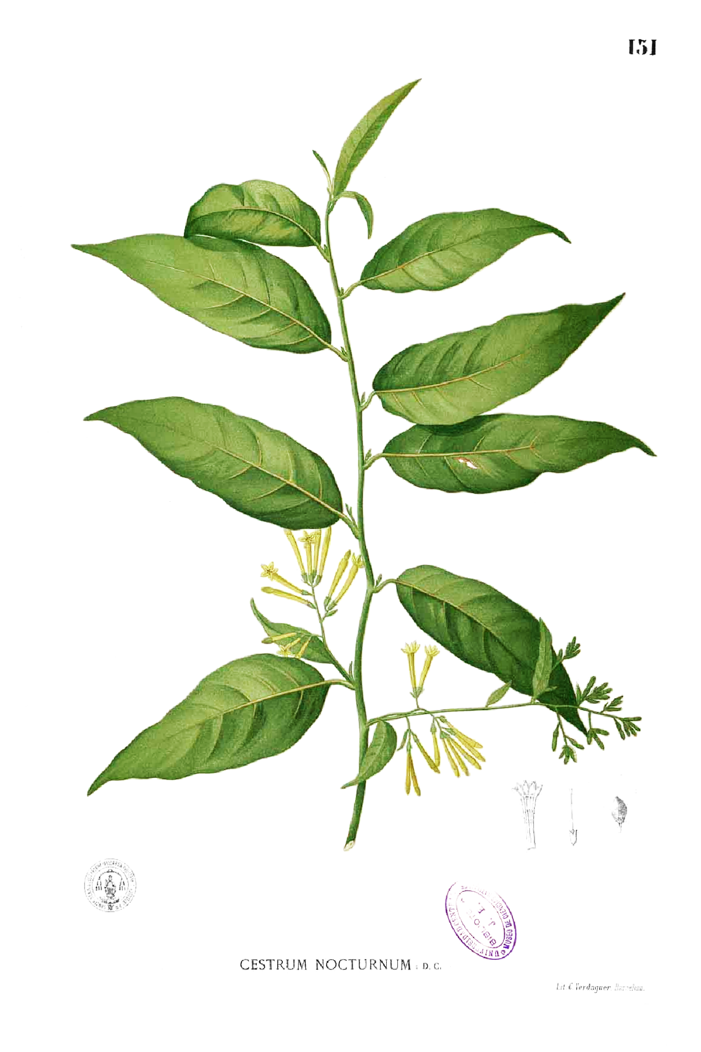 Plate from book